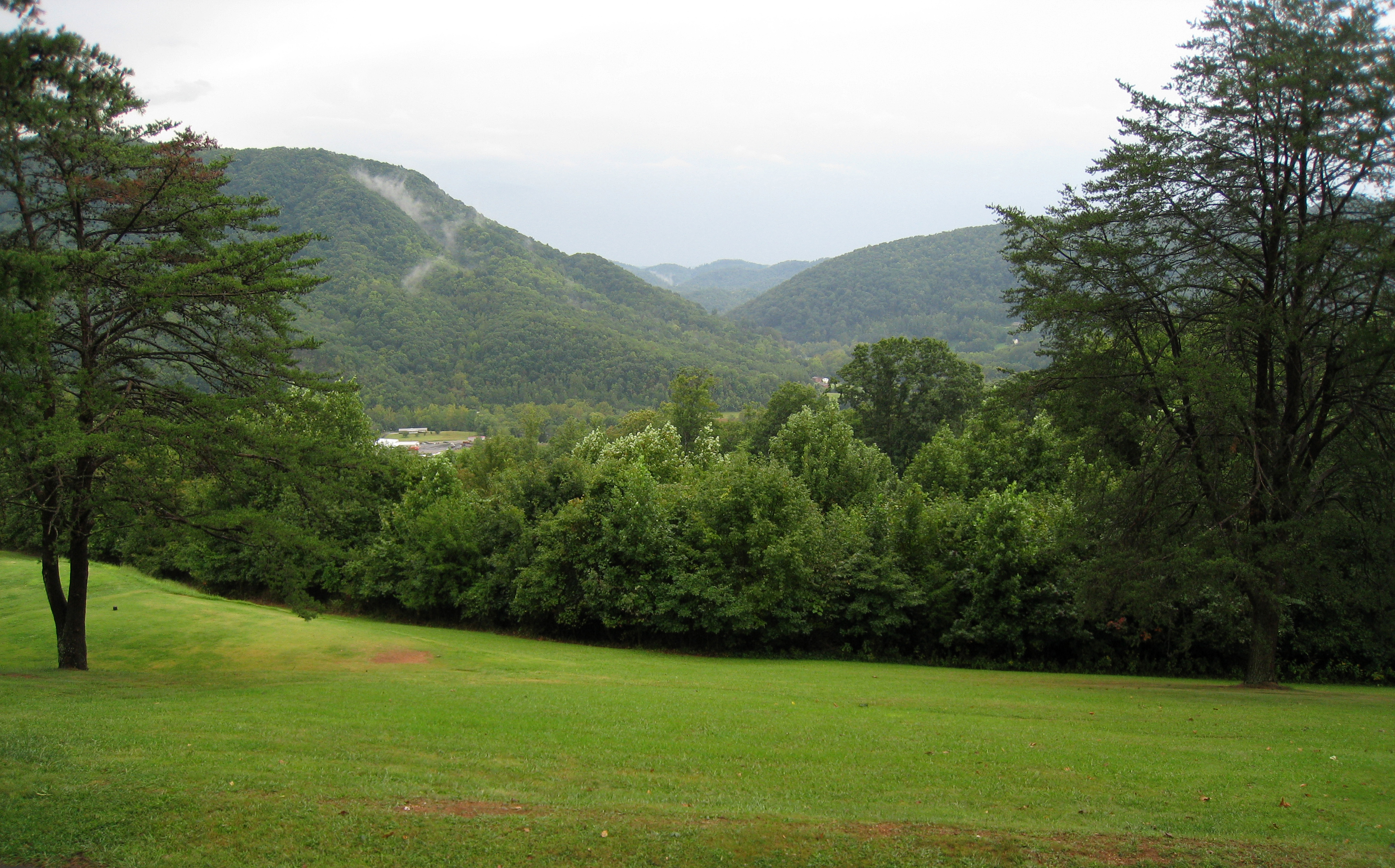 Moccasin Gap, Clinch Mountain, Scott County, Virginia 2009-09-09 Mark Lindamood